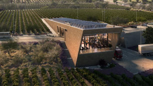 Main building in "bricks, wood & white" materials